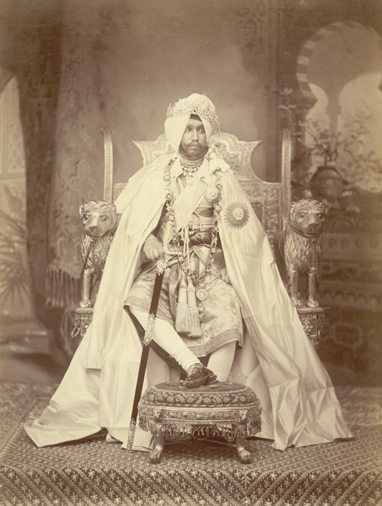 Photograph of Sir Rajinder Singh, the Maharaja of Patiala, taken by an unknown photographer in c.1898. This full-length portrait shows the Maharaja seated on a gilded throne with his right leg raised on a footstool and holding a sword. He wears royal regalia including a cloak and a chain of office. The arms of the throne are designed in the form of lions, and it is set against a painted studio backdrop